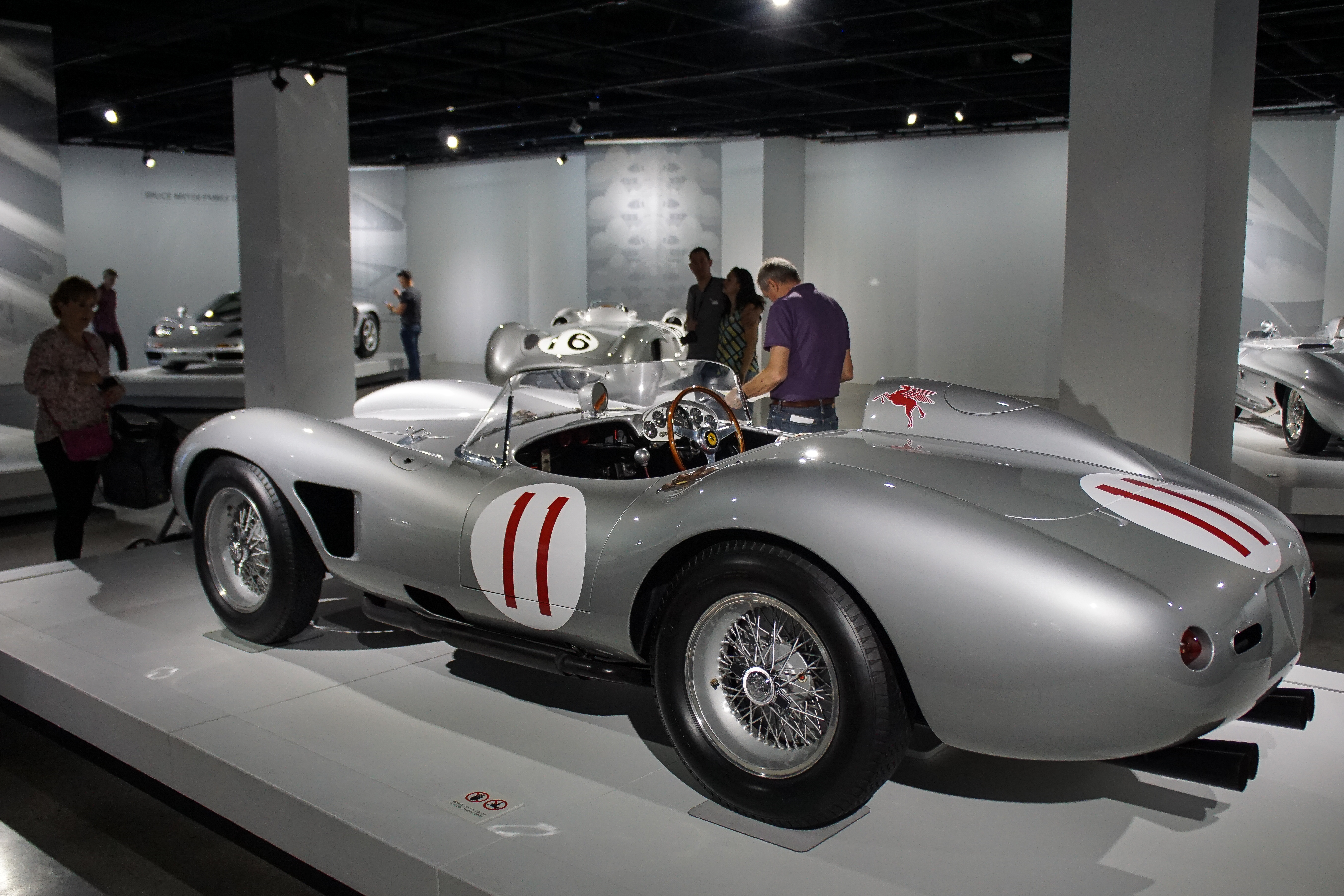 Petersen Automobile Museum Wilshire Blvd Los Angeles California